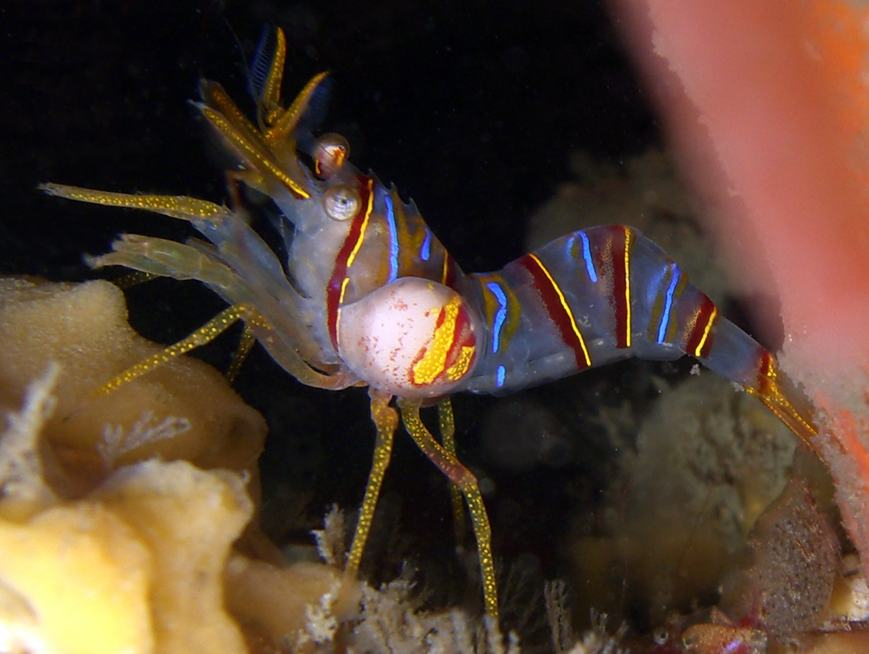 Lebbeus grandimanus (Bražnikov, 1907) (Caridea: Hippolytidae) from North East Pacific, with unidentified bopyrid, likely Bopyroides hippolytes Krøyer, 1838 (known from this host in the North East Pacific). Photograph used by permission of Bob Bailey.